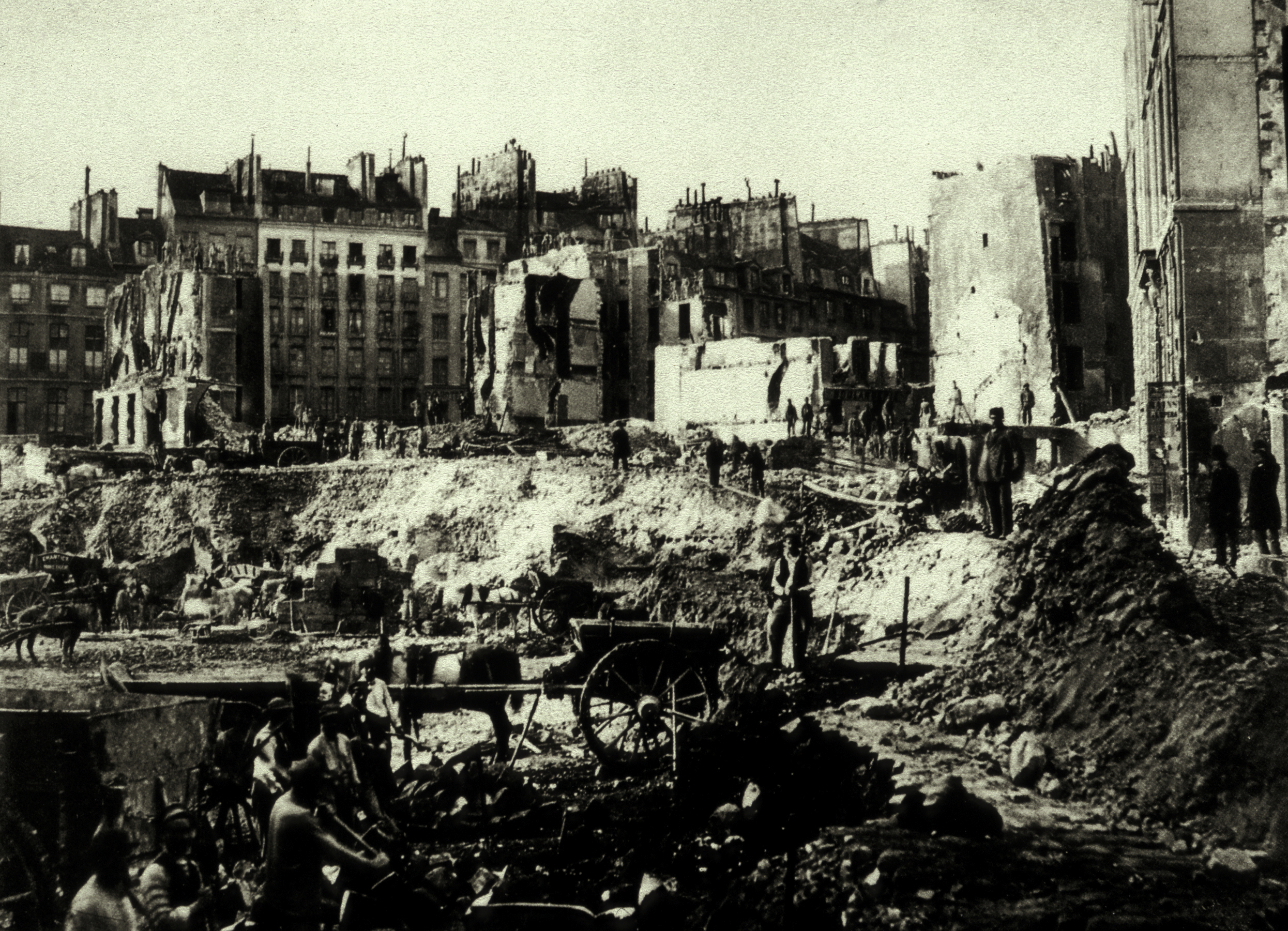 The severity of the demolition depicted here between the rues de l'Échelle and Saint Augustin was not unusual for the Second Empire. The renovation and construction of new public roadways and parks oftentimes necessitated the complete destruction of various Parisian roadways and quarters. Photographer Charles Marville was well-known for capturing images of the older Parisian quarters prior to urbanization. In 1850, Marville was hired by the city of Paris to document the changes resulting from the demolition and reconstruction of the Haussmann era. He was named the official photographer of Paris in 1862.